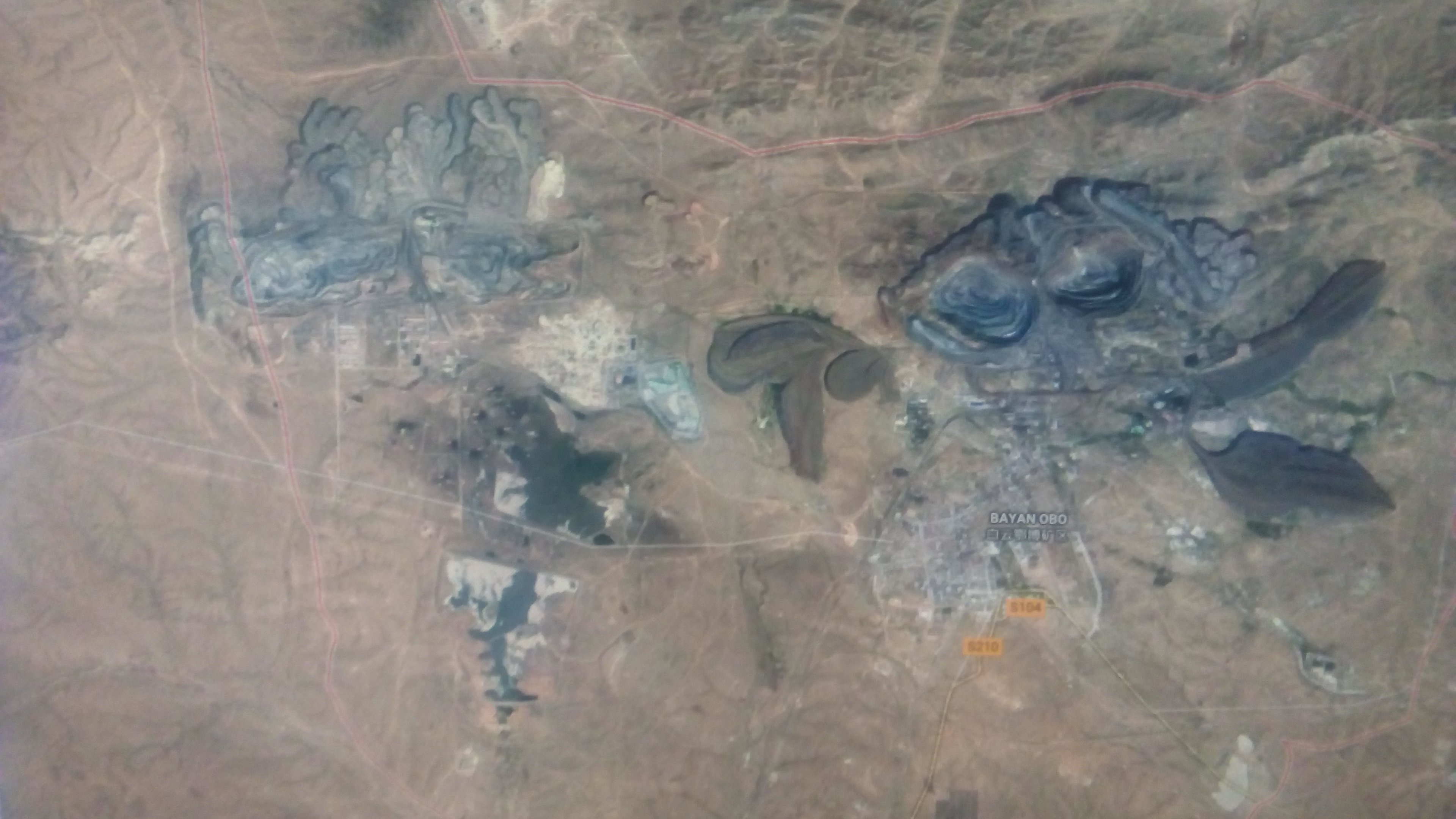 Bayan Obo